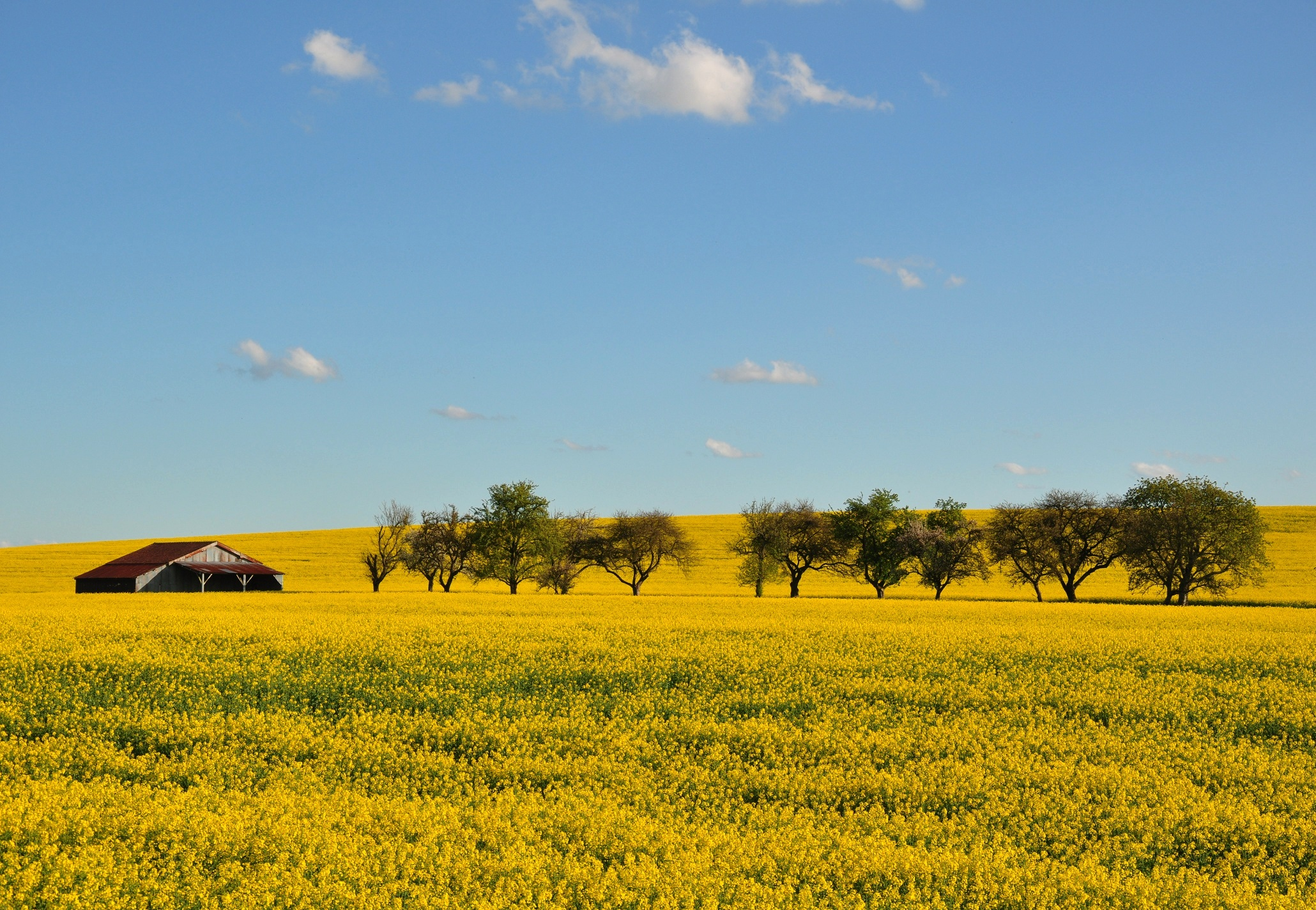 Rapeseed fields. Spring in Autrécourt-sur-Aire (canton Seuil-d'Argonne, Meuse department, Lorraine region, France).